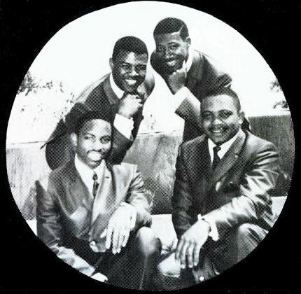 Photo of the music group Archie Bell and the Drells.